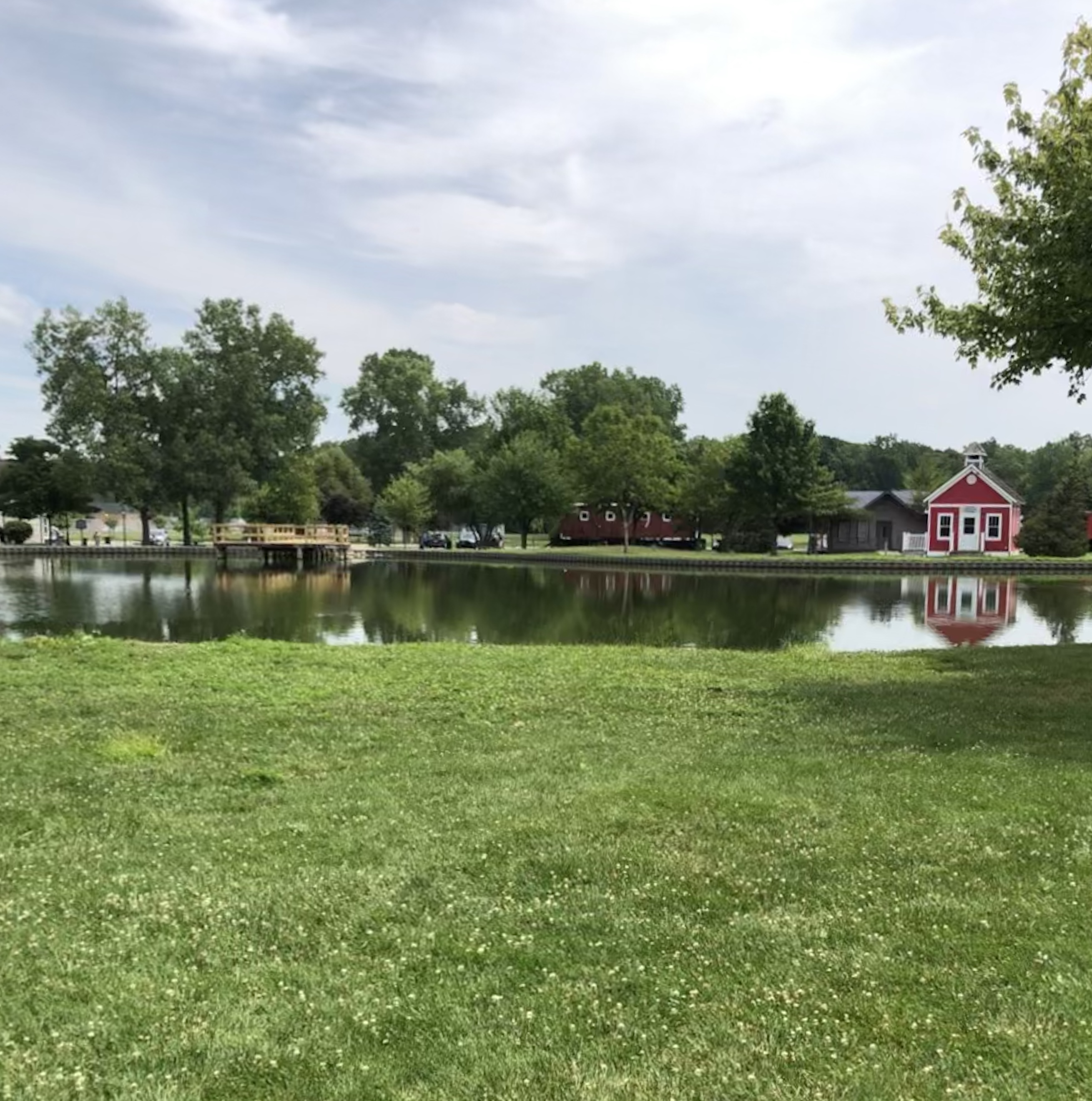 View of Coan Lake in Heritage Park in Taylor MI In July 2020.